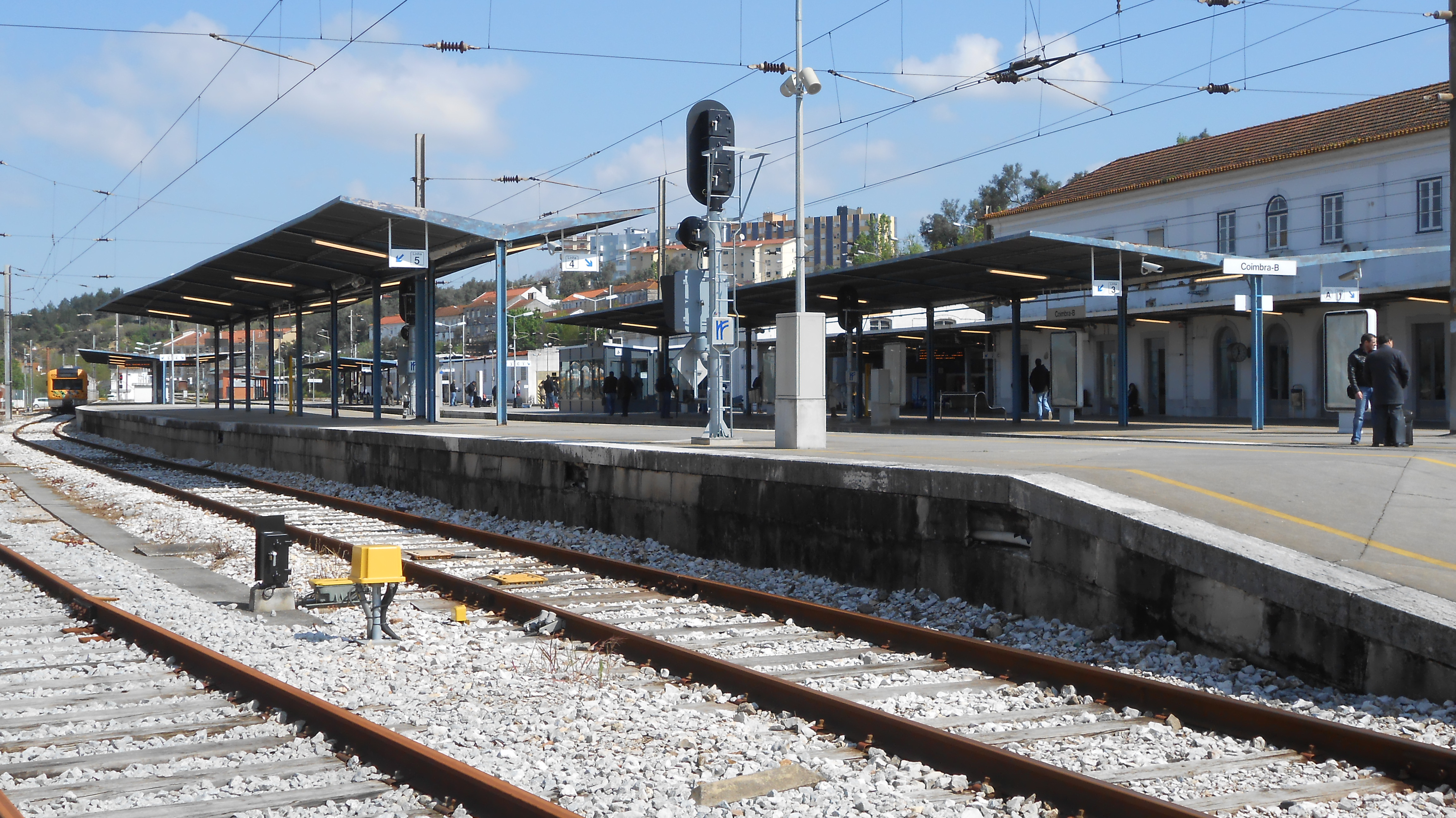 Inside Coimbra-B train station